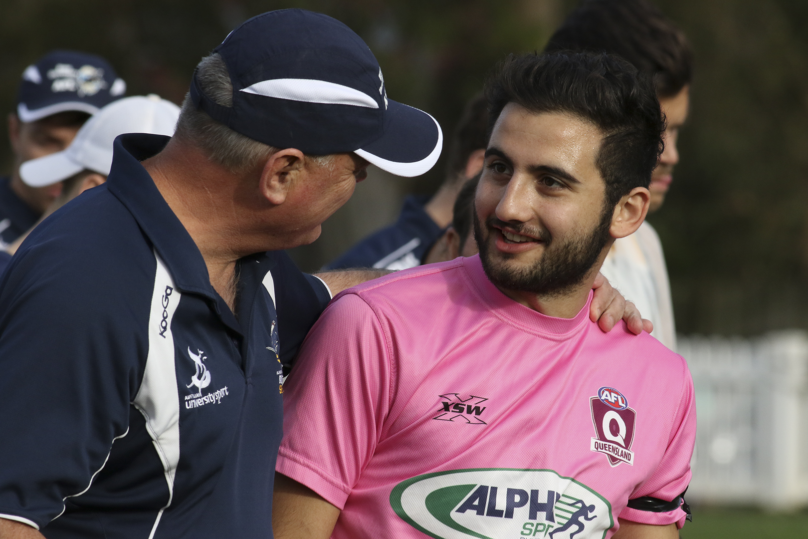 Australian rules football coach (left) with one of his runners